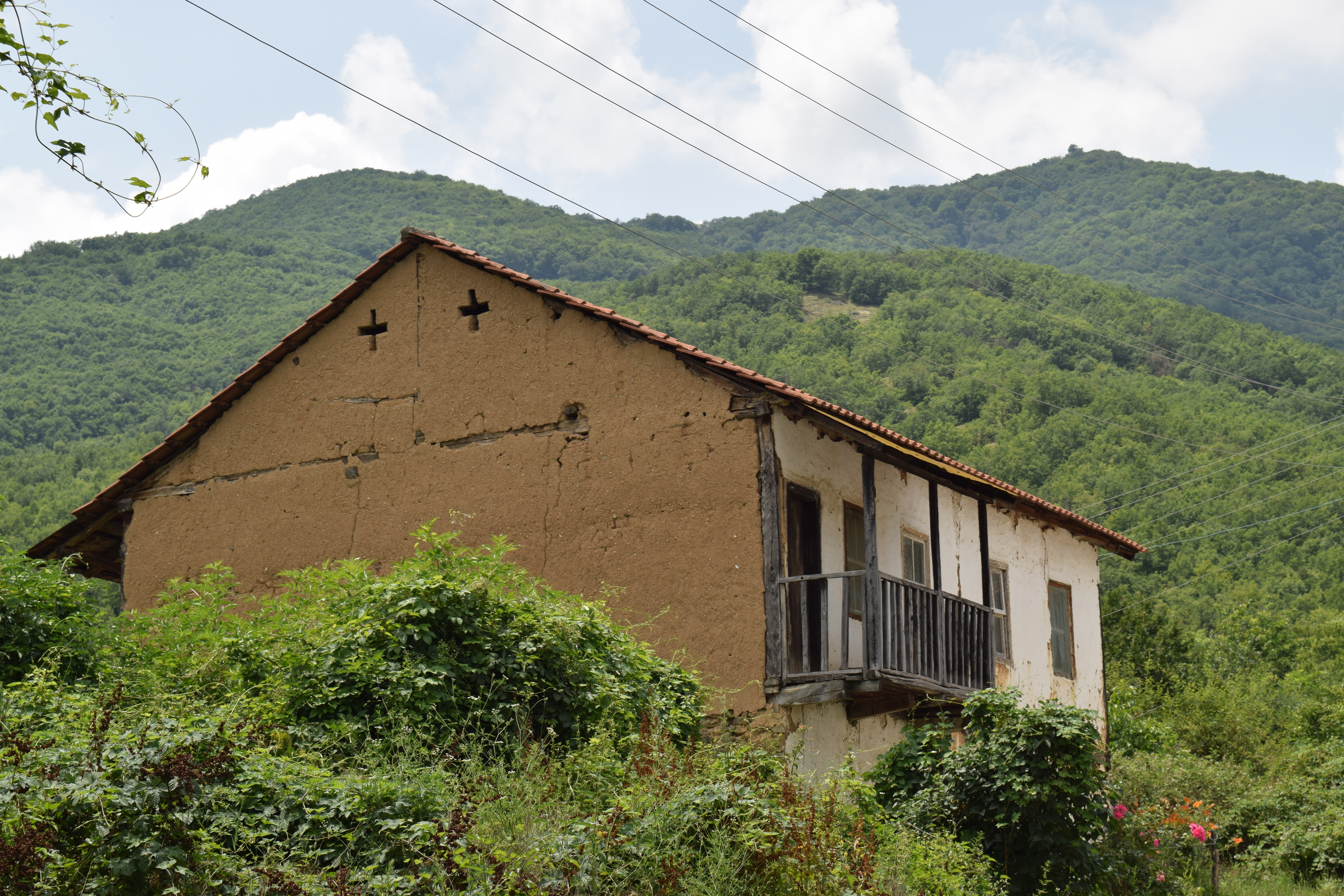 Old house in the village Mokreni